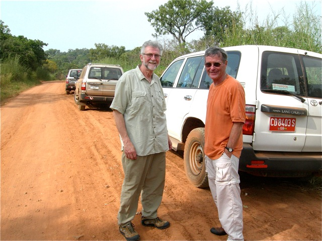 Robert Bilheimer and Richard Young in Ghana while working on the film "Not My Life"